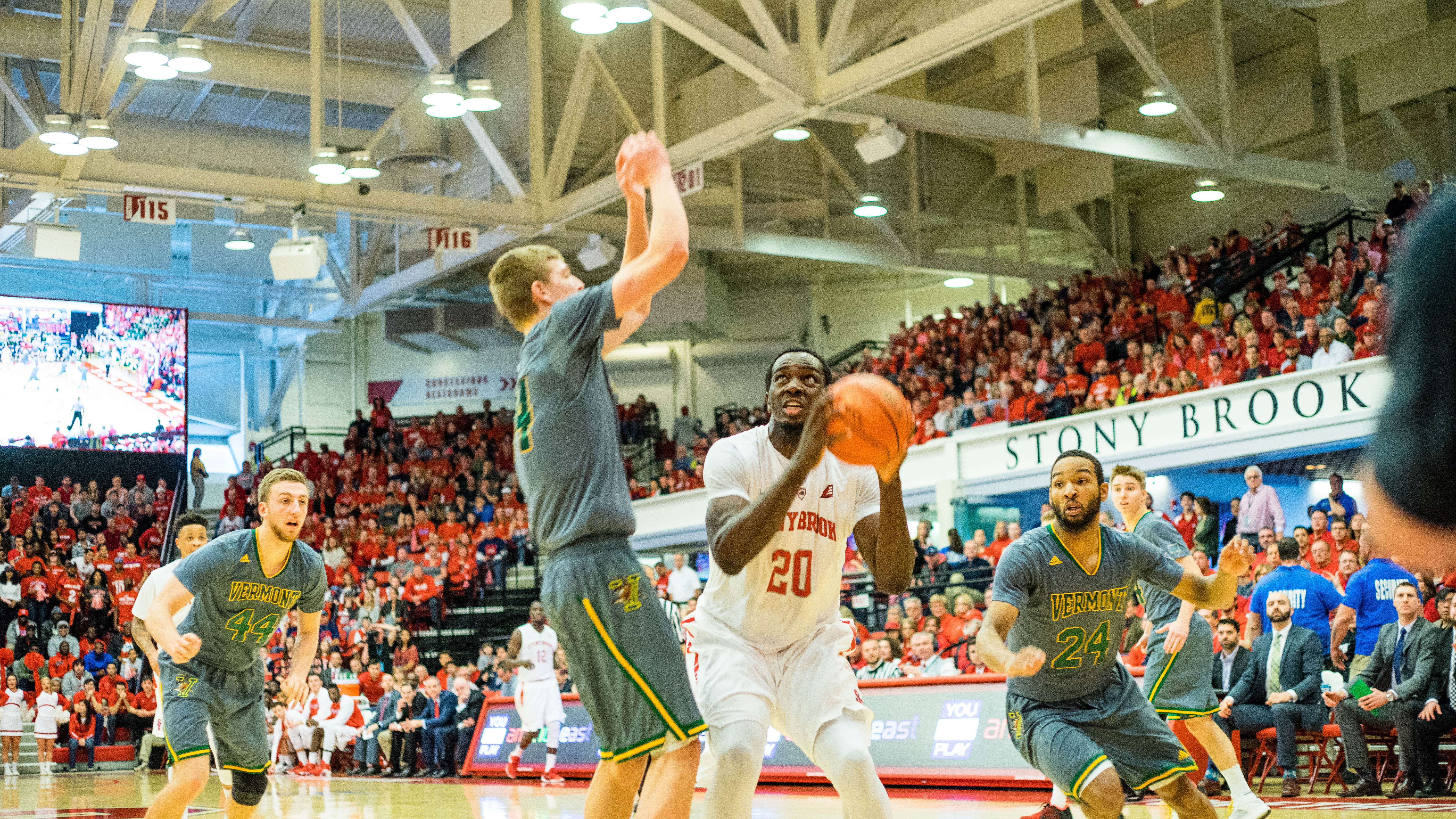 Jameel Warney (20) playing in the 2016 America East Tournament final against Vermont.